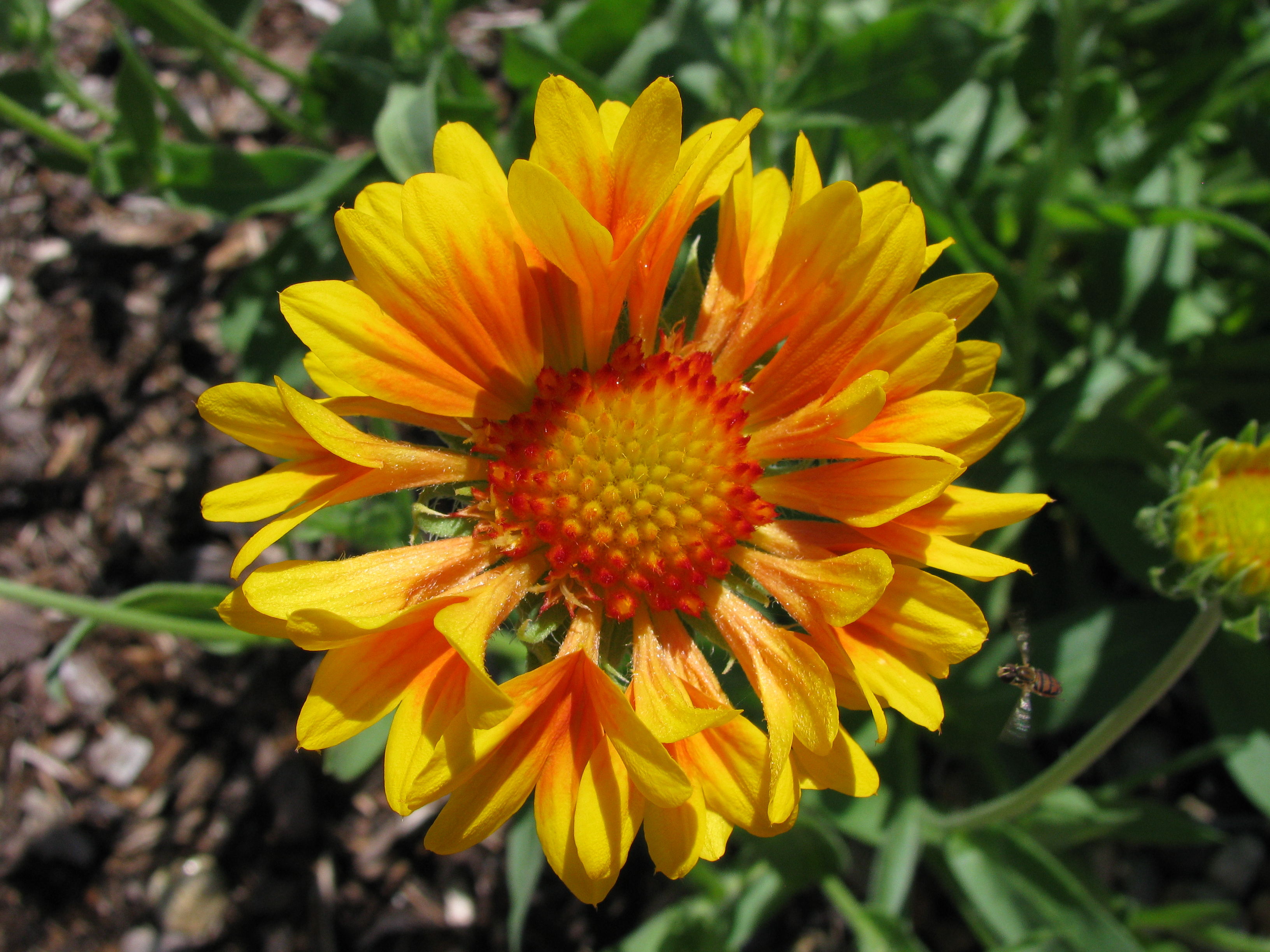 A close up of the flower on a Gaillardia x grandiflora en cultivar 'Oranges and Lemons', commonly known as a Blanket Flower. Growing in New Hampshire.